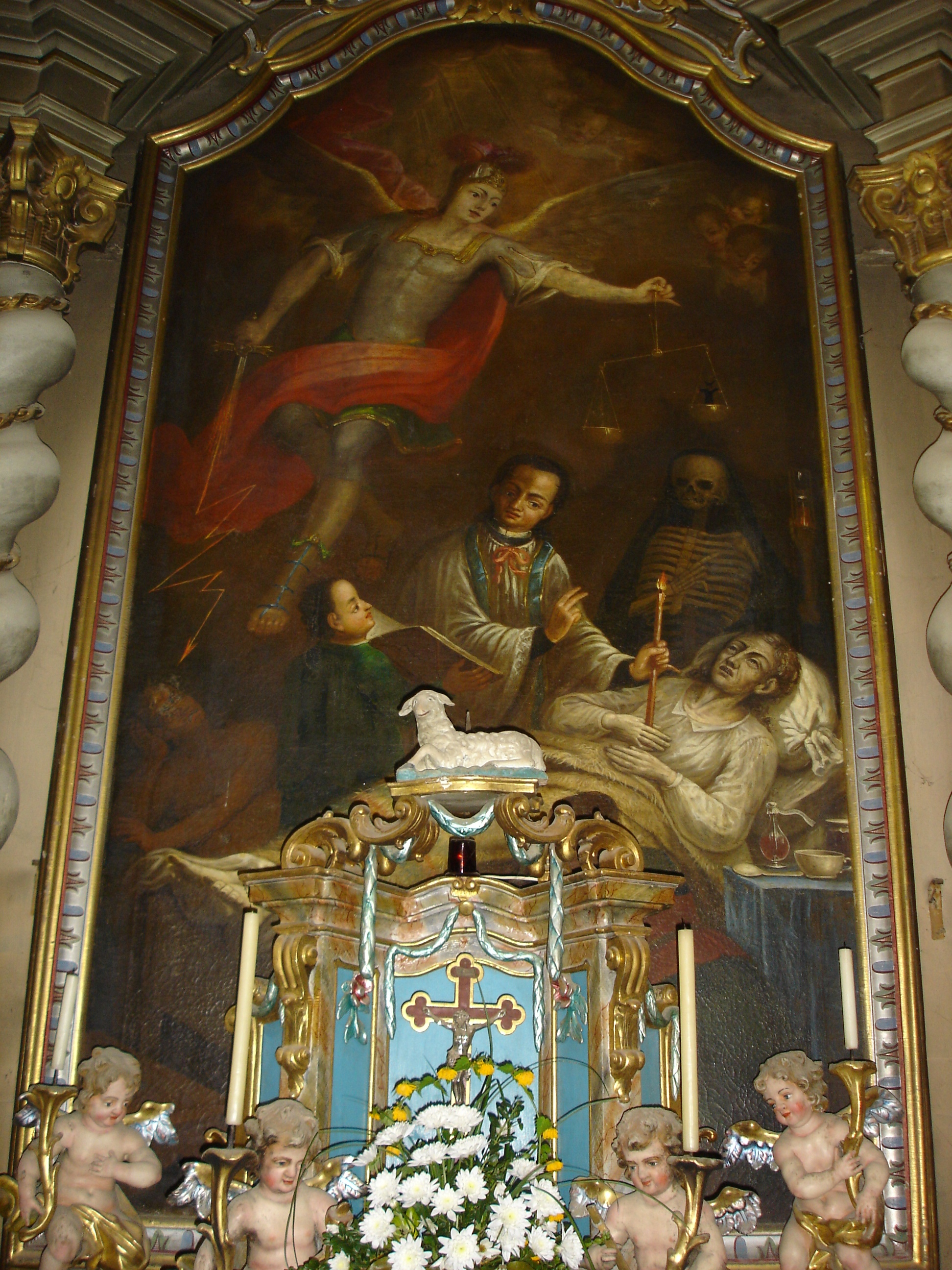 St. Michael's Parish Church (Pišece)